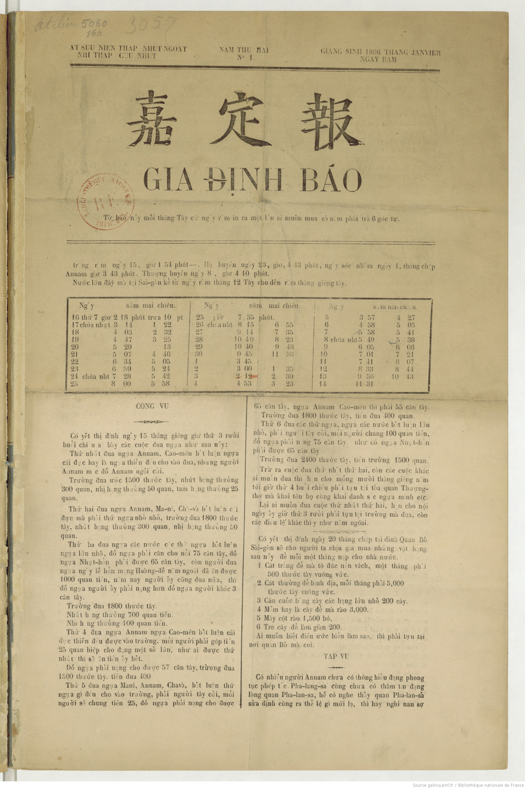 Front page of the January 1866 edition of Gia Dinh Bao